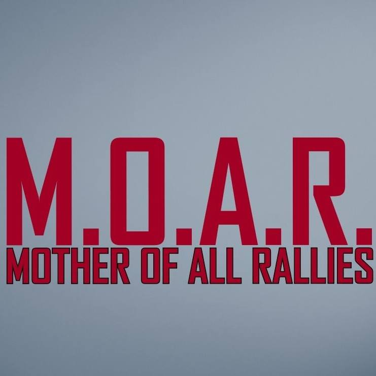 Promotional artwork for the Mother of All Rallies. This artwork is used as the Facebook event's profile image.